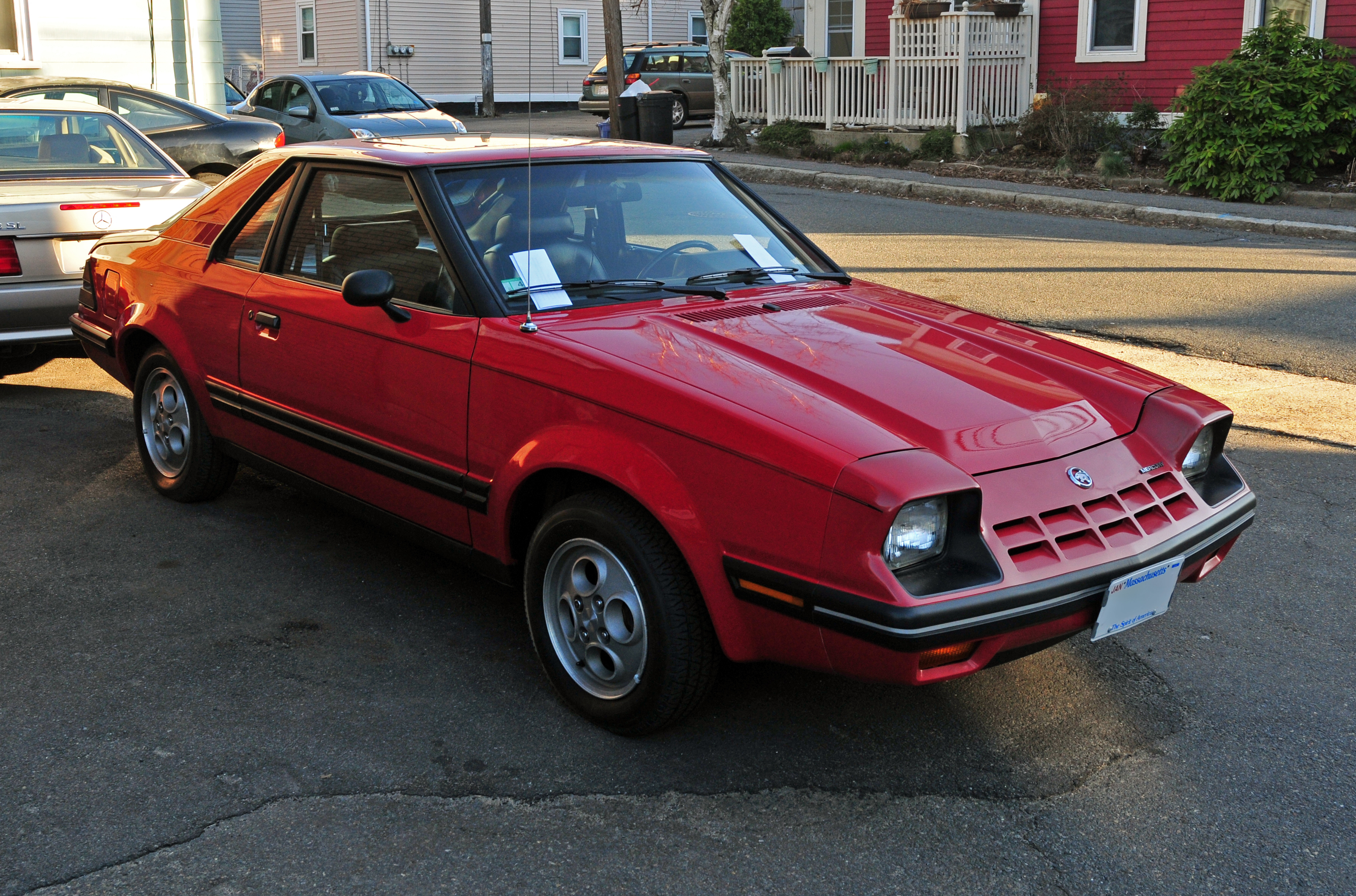 A clean example of the Series 1 Mercury LN7 Sport Coupe